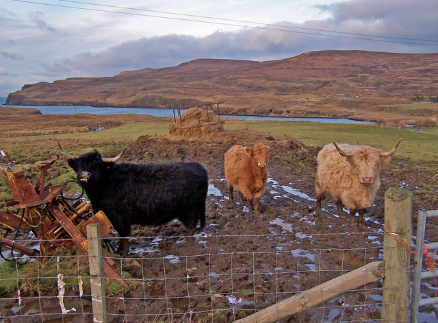 Black, orange and cream Three smart Highland cattle with muddy feet in Hamaramore, with loch Pooltiel beyond.